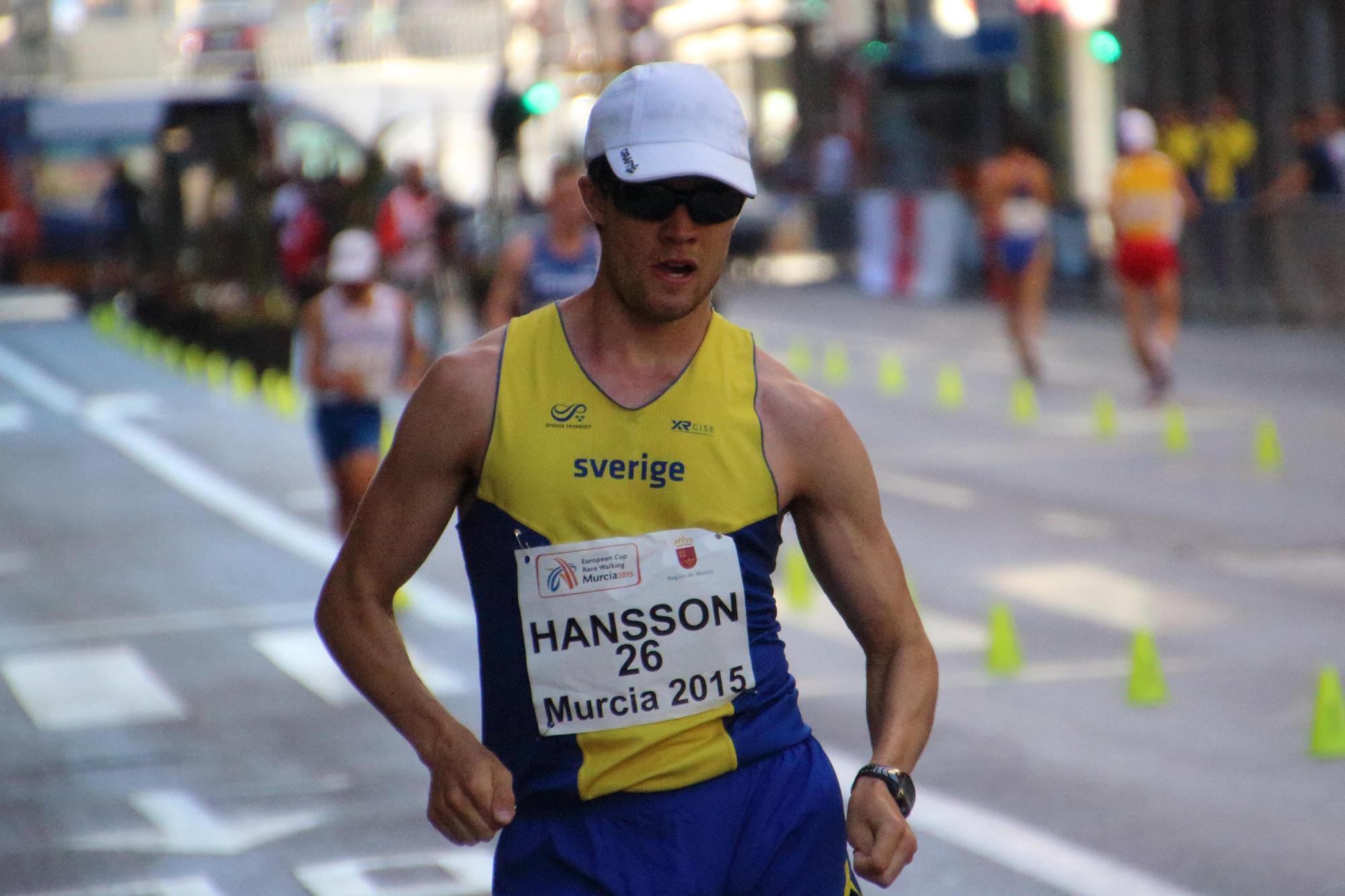 26-Anders Hansson (SWE) in the European Cup Race Walking 2015 (Murcia, Spain).